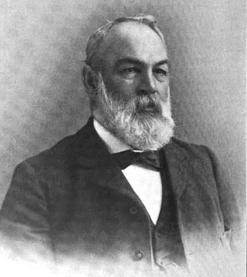 William Weaver Bennett circa 1900 crop